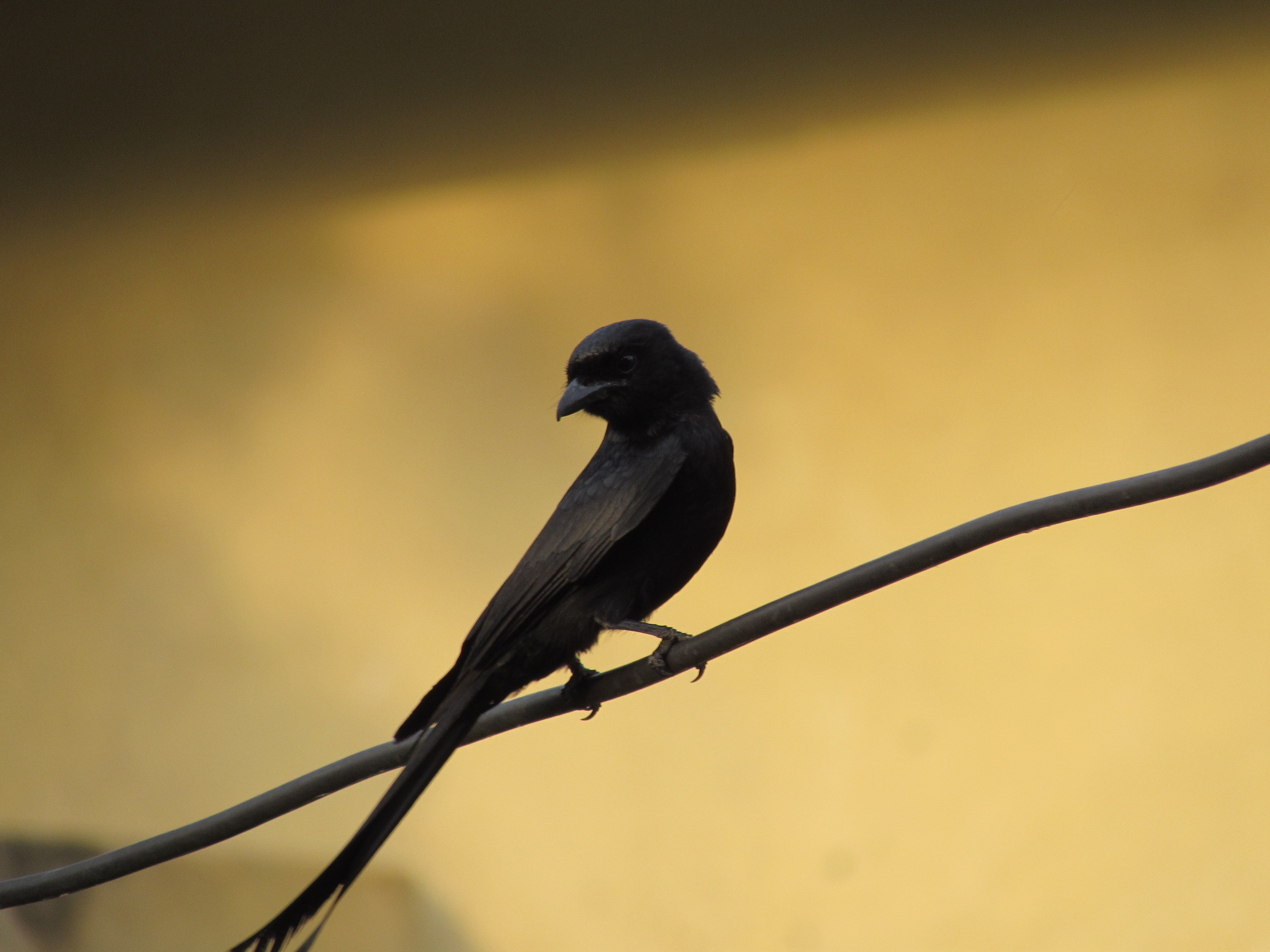 Black Drongo Dicrurus macrocercus, Nepal